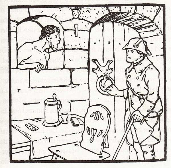 Grimm's Fairy Tales - Brother Lustig at Hell's door - Illustration by Otto Ubbelohde c1890